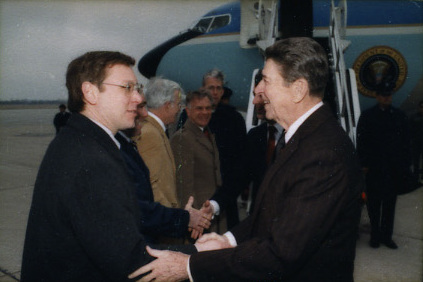 President Reagan on Air Force One (3-5) President Reagan, John Hiler, Robert Orr, John Mutz, Richard Shank, Joe Zakas, Joseph Kernan, Edward Malloy, Andrew McKenna (Not in all photos) (6-16)